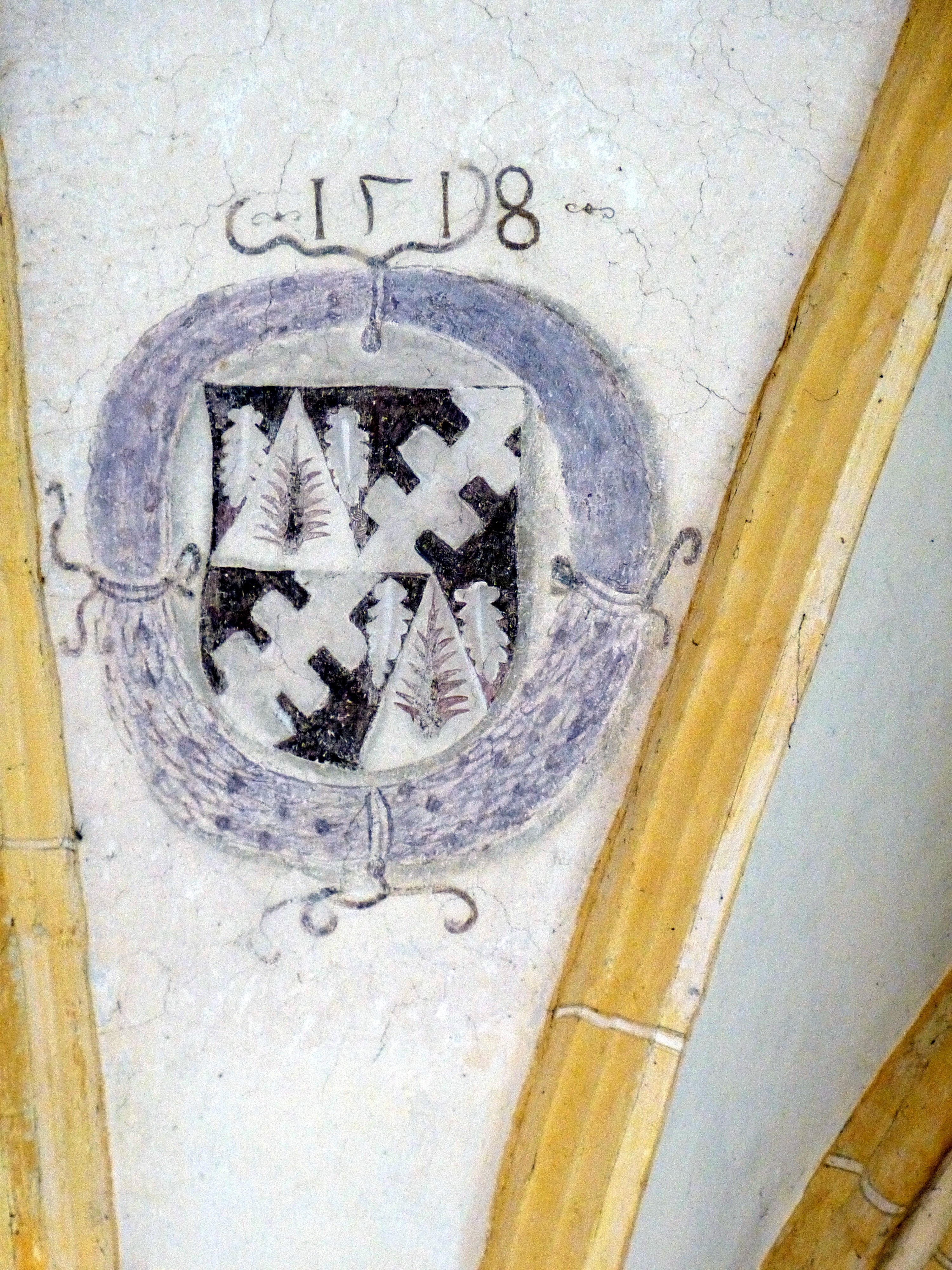 Steinkirchen ( Ortenburg / Lower Bavaria ). Saint Lawrence church ( 15th century ) - Coats of arms ( 1518 ) of Wolfgang von Ortenburg.